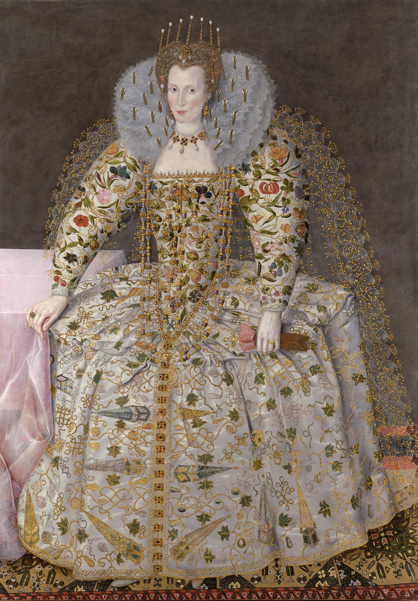 Portrait of a Lady 1595-1606, formerly called Elizabeth I of England but now thought to be Catherine Carey, wife of Charles Howard, 1st Earl of Nottingham, wearing a richly embroidered bodice and petticoat. Attributed to Robert Peake the Elder and studio.